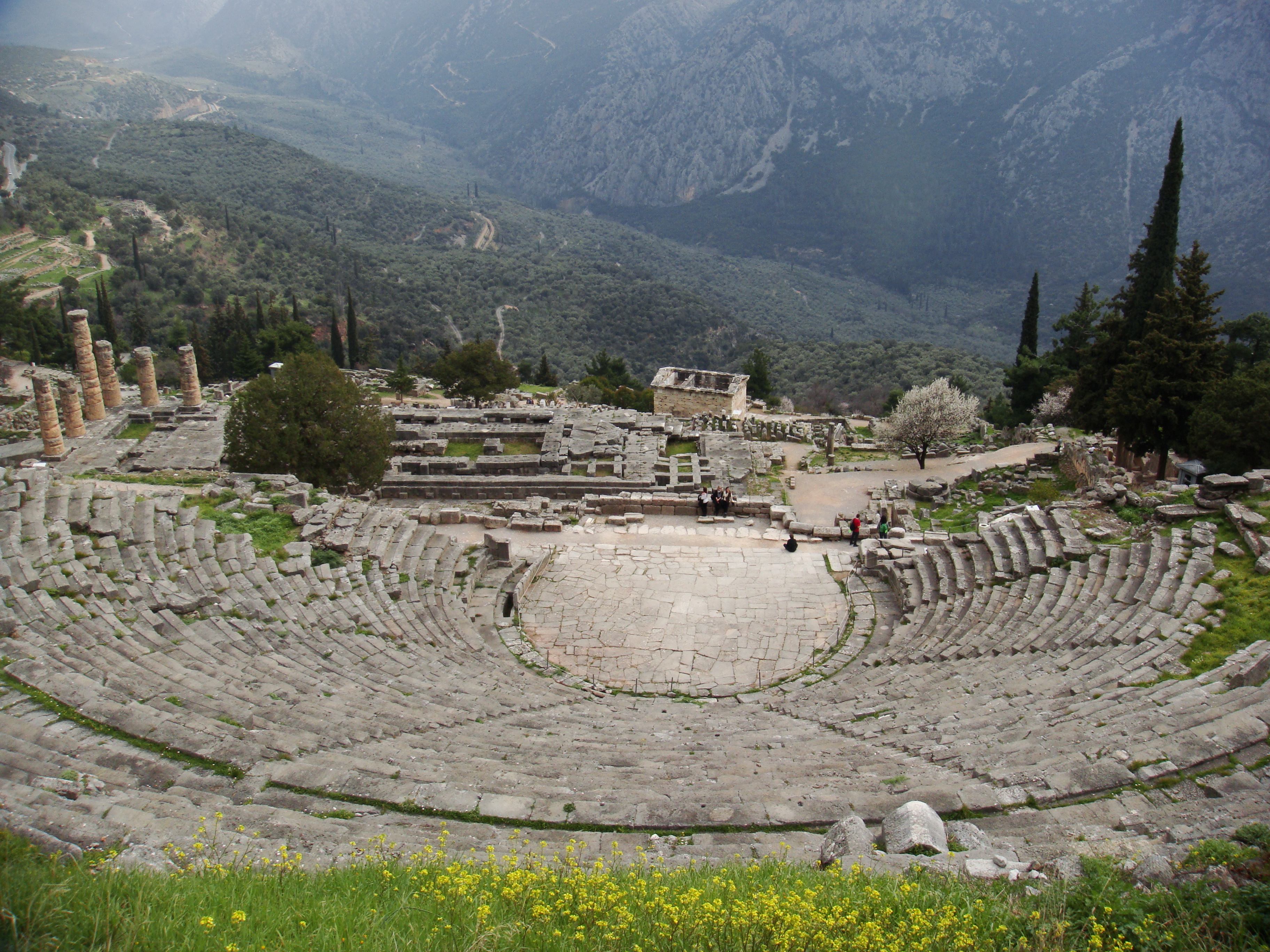 The Theatre of Delphi from above. Note also the base of Temple of Apollo.